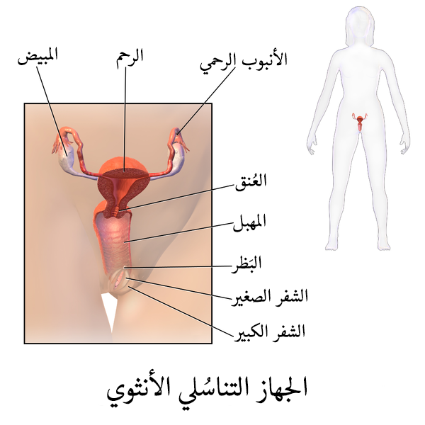 Female Reproductive System